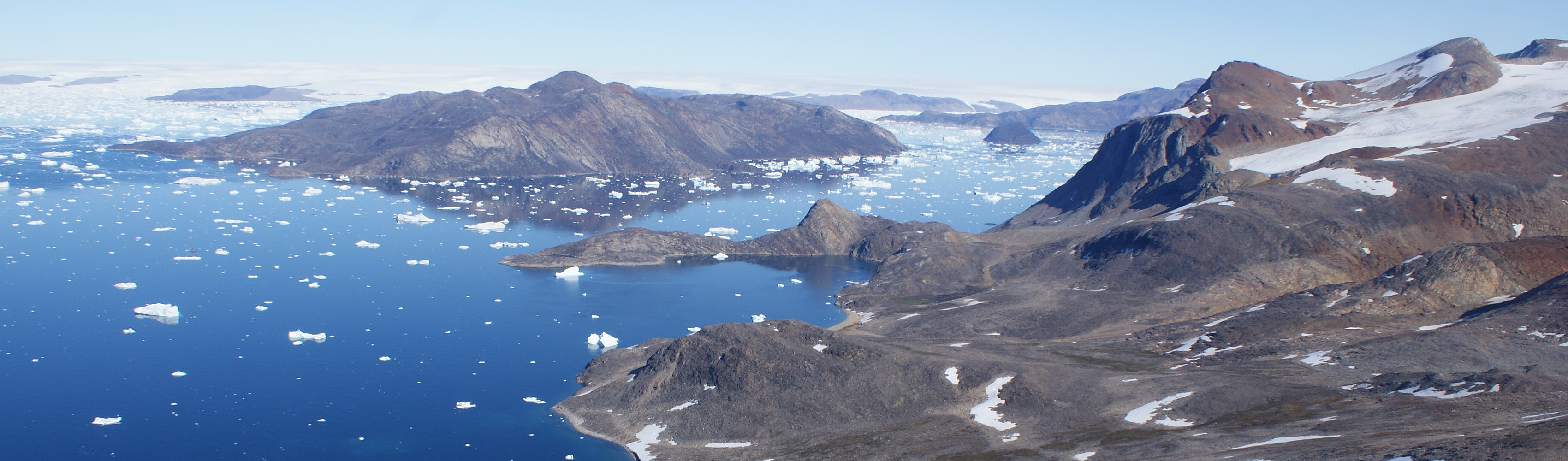 Aerial view of Saqqarlersuaq Island, Saqqarlersuup Sullua strait, and Kiatassuaq Island. Melville Bay, Upernavik Archipelago, Greenland. Photographed from the Air Greenland Bell 212 during the Kullorsuaq-Nuussuaq flight.